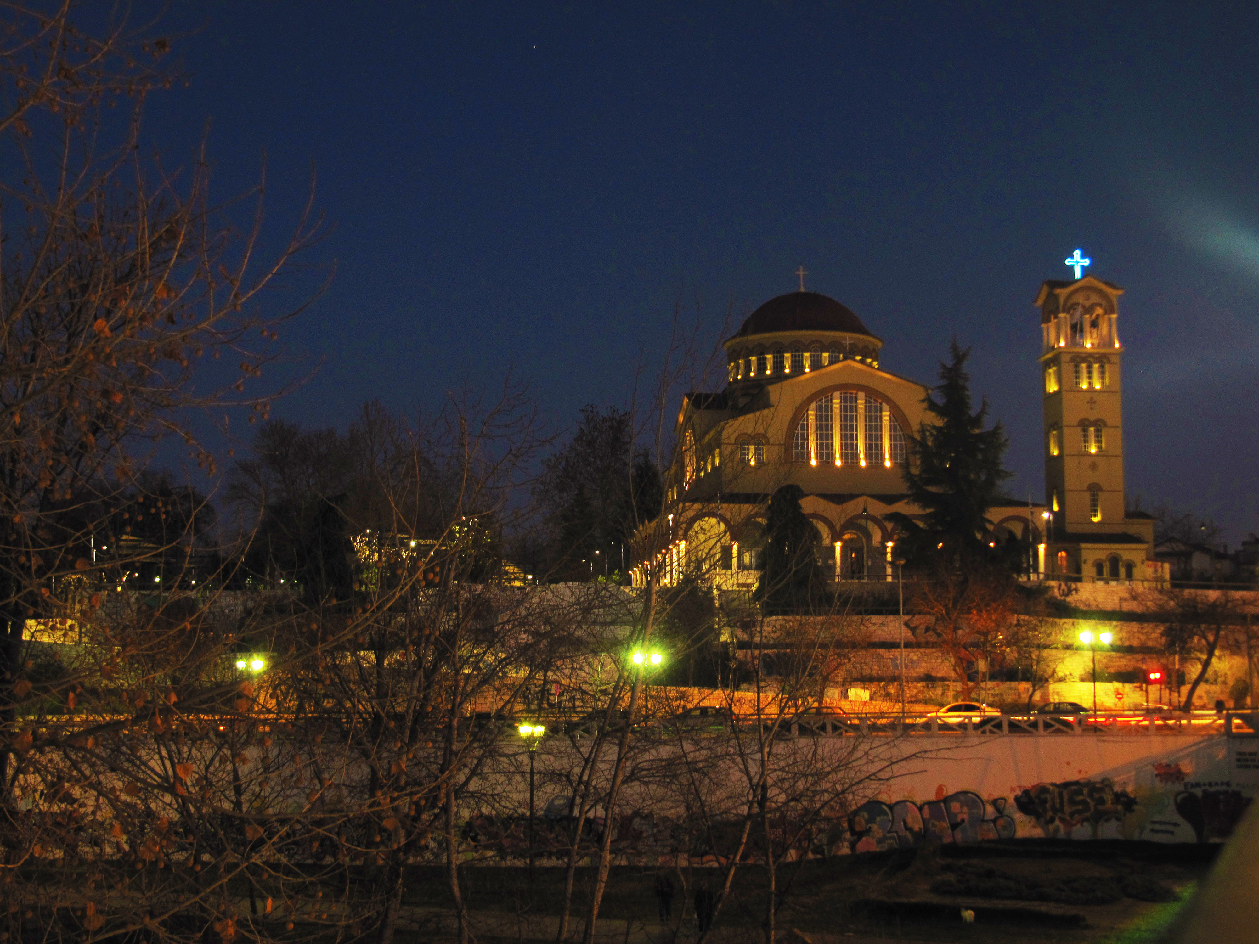 St Achilles at night